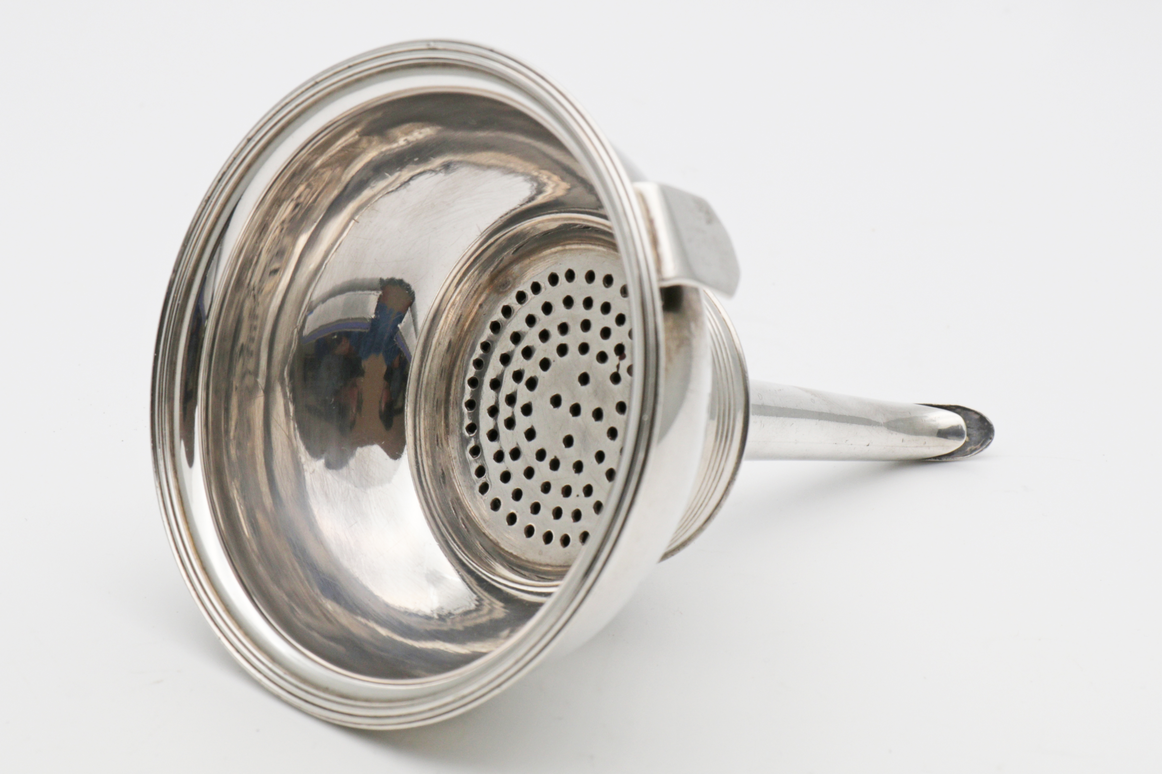 William Abdy II silver ogee wine funnel, London 1802 with threaded rim